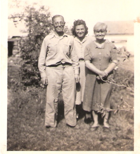 Zvi Hirschfeld founding member of Nahalal in Israel, with his wife Sara and daughter